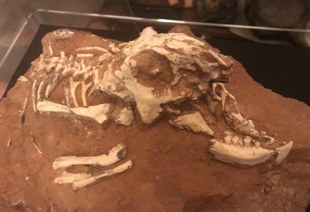 Skeleton of Bagaceratops in Yokohama Japan.